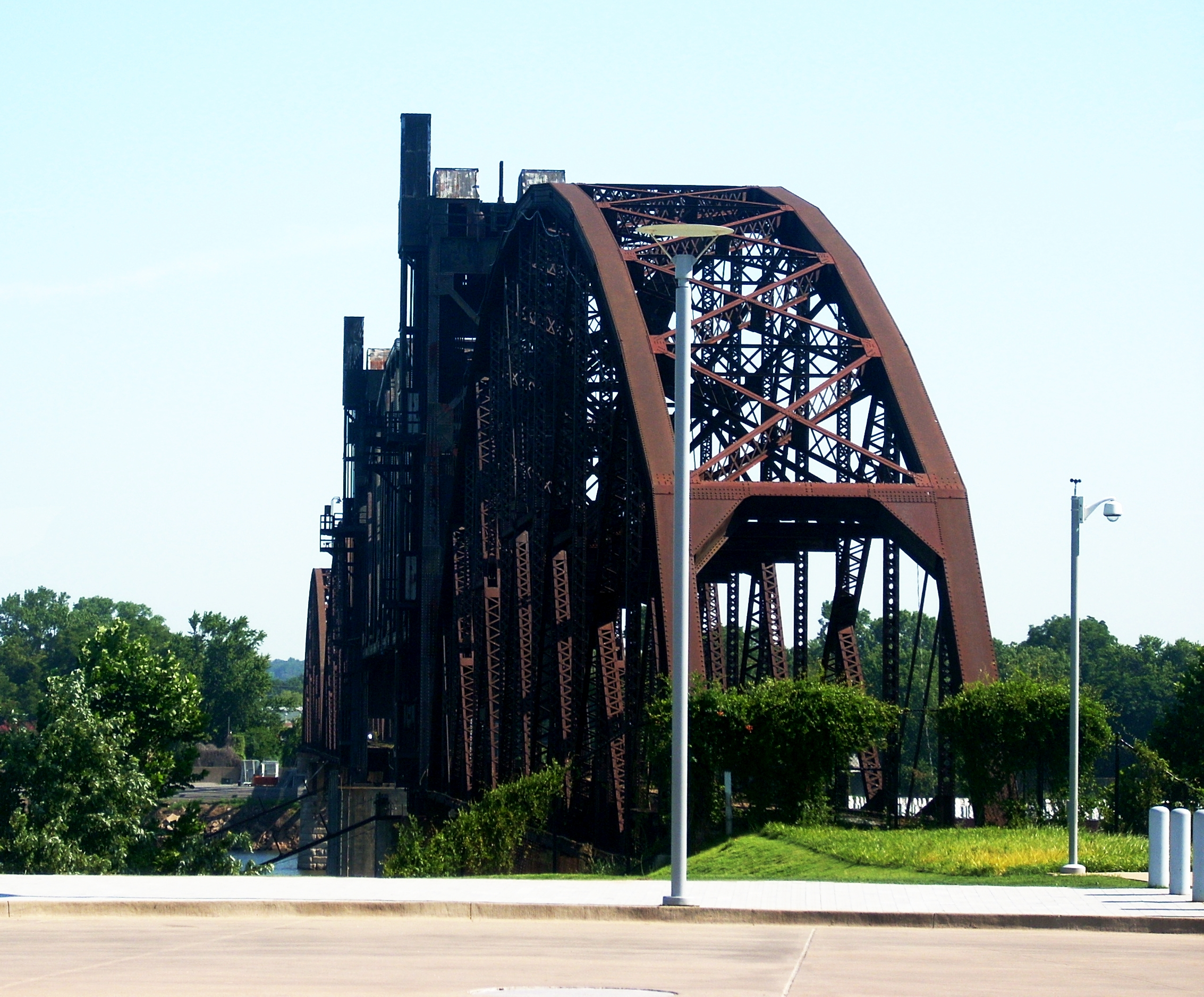 1899 Rock Island Railroad Bridge next to the Clinton Presidential Center, before restoration, Little Rock, AR, USA. Post-processed in Gimp.